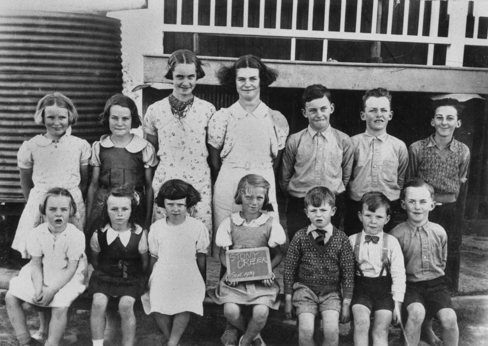 Students of Stony Creek State School Woodford, Queensland, 1939. Script with photograph reads 'Kalangara'. Formerly Durundur.